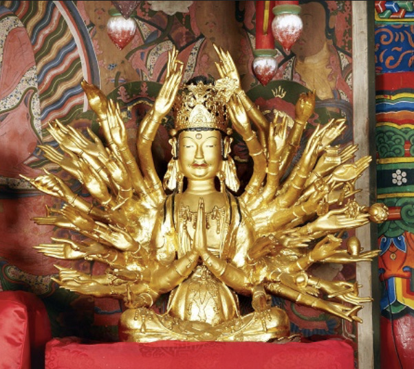 Avalokiteshvara statue, 19c, Heungcheon-sa(buddhist temple), Seoul Korea